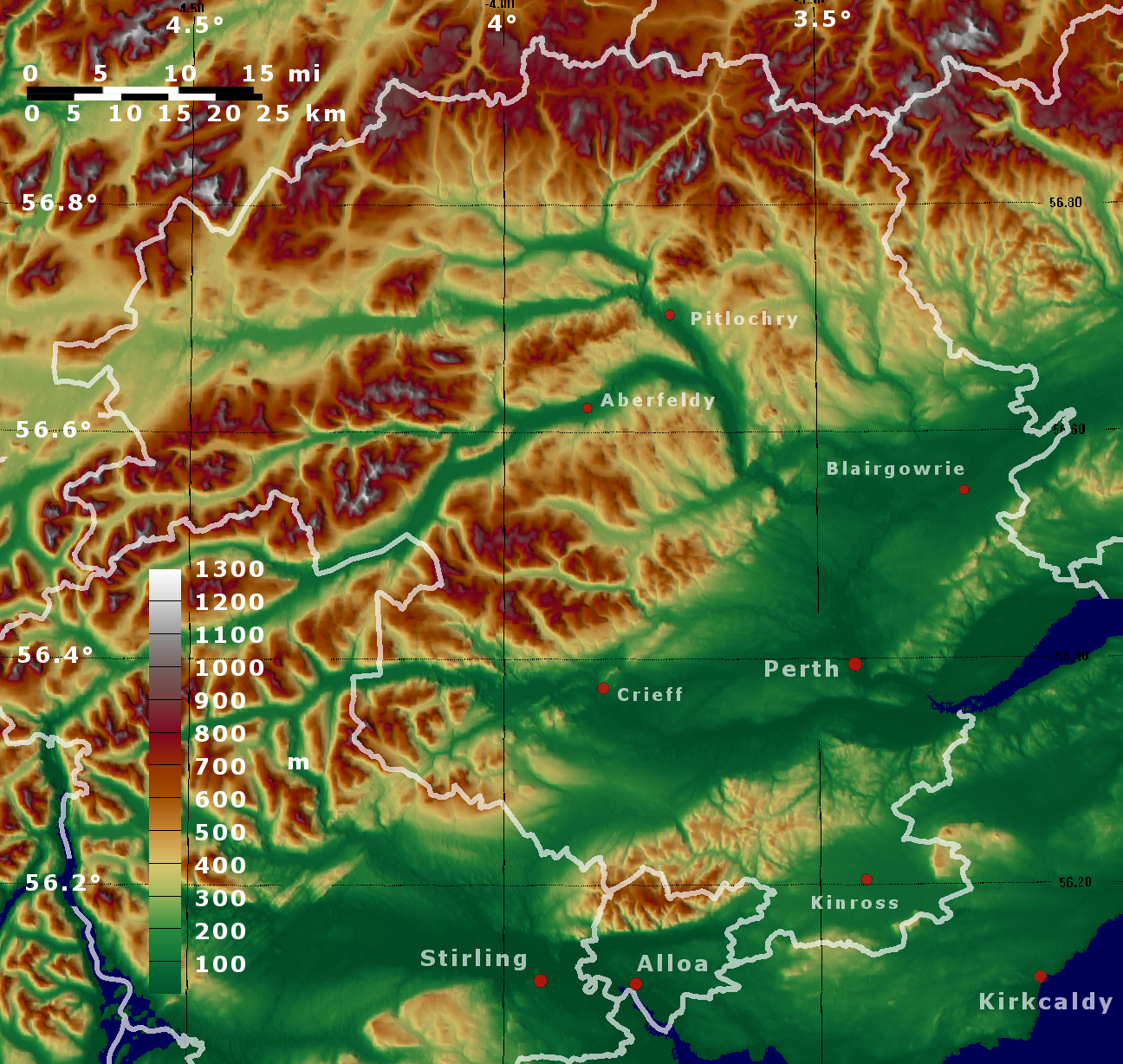 Map created with 3DEM from SRTM (